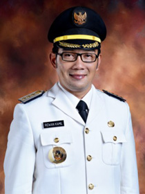 Official portrait of Ridwan Kamil, mayor of Bandung since 2013